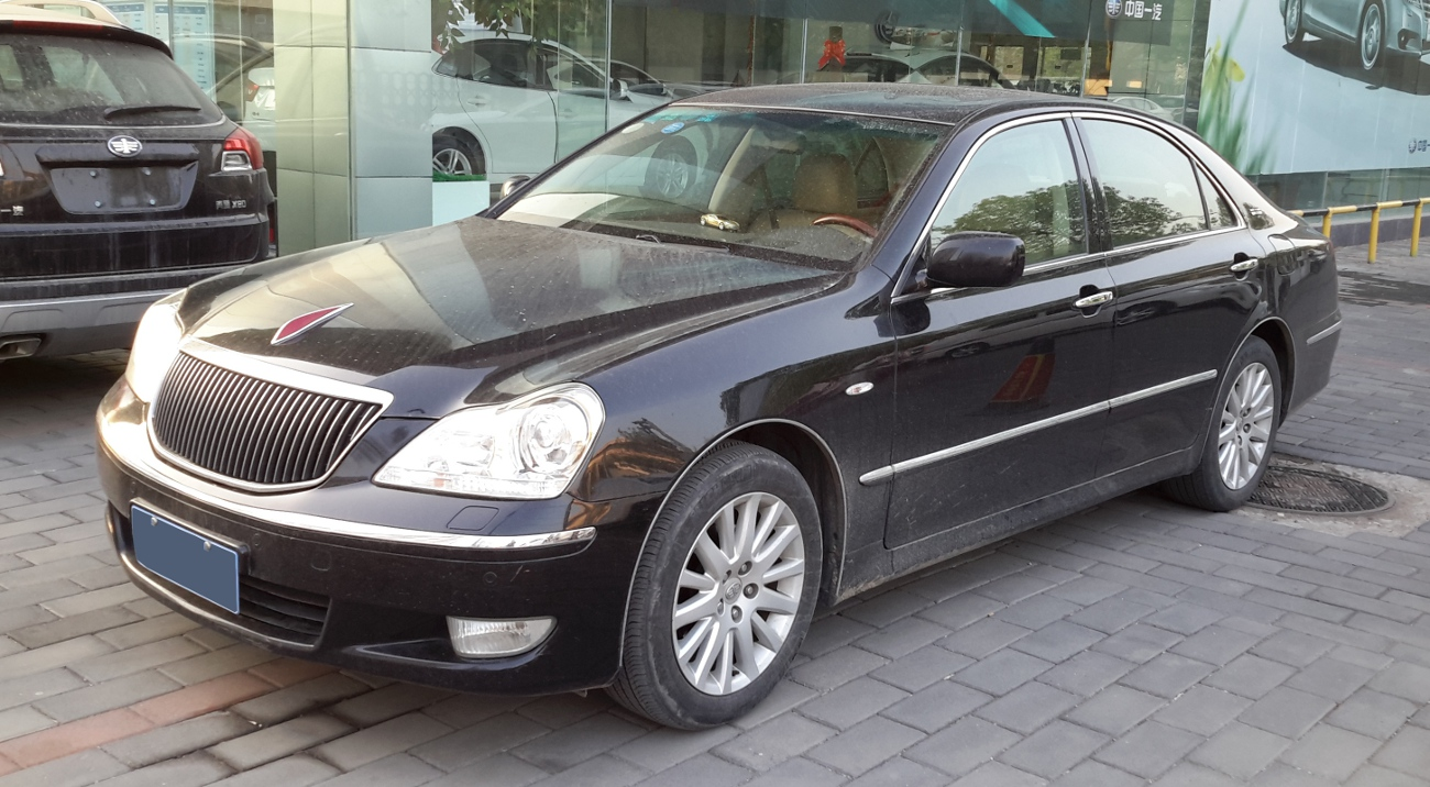 Hongqi HQ3 photographed in Beijing, China.